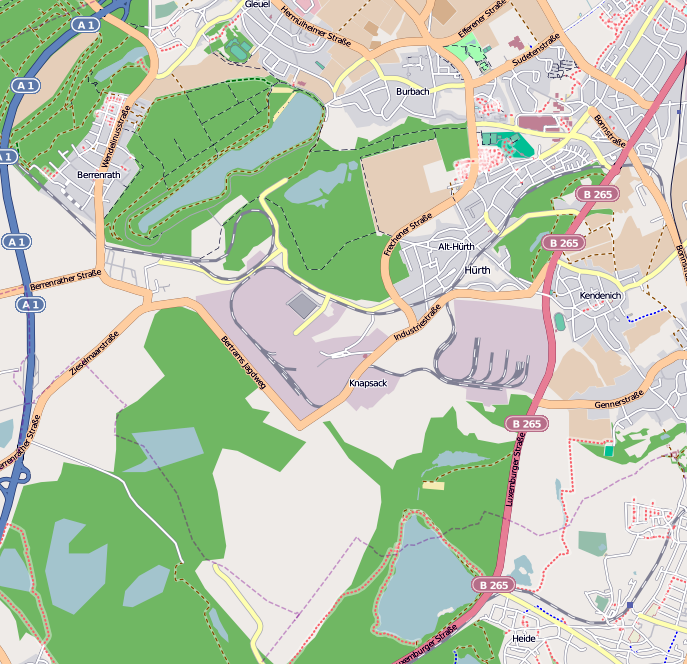 This map may be incomplete, and may contain errors. Don't rely solely on it for navigation.